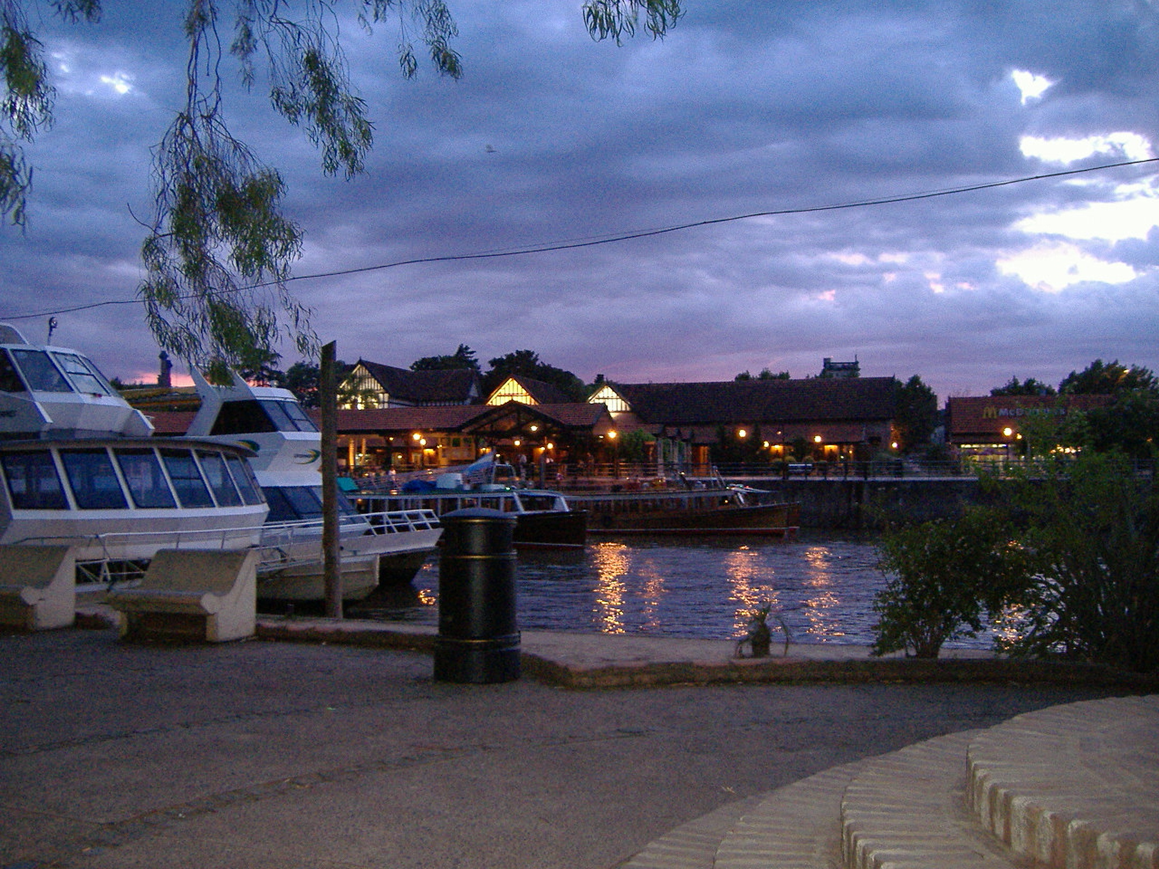 Sunrise at the port of Tigre (Argentina)